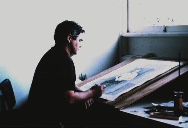 John Brack working on the portrait of J.R. Macleod